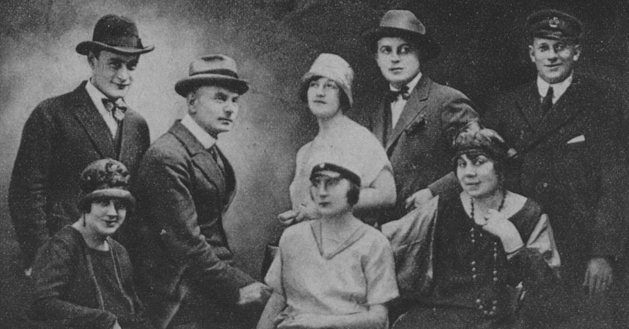 The Finnish Theatre (Finnish National Theatre) during the summer tour of 1925. The sitting row from the left: Martta Hannula, miss Mäkinen and Annie Mörk. The standing row from the left: Viljo Metsä, Kaarlo Saarnio, Sigrid Baltchewsky, Ossi Korhonen and Theodor Weissman.